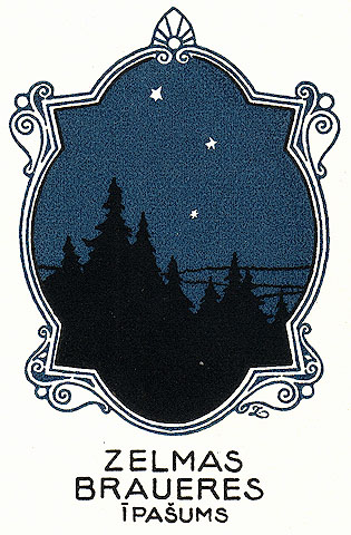 Bookplate by Rihards Zariņš (1869-1939), Latvian artist